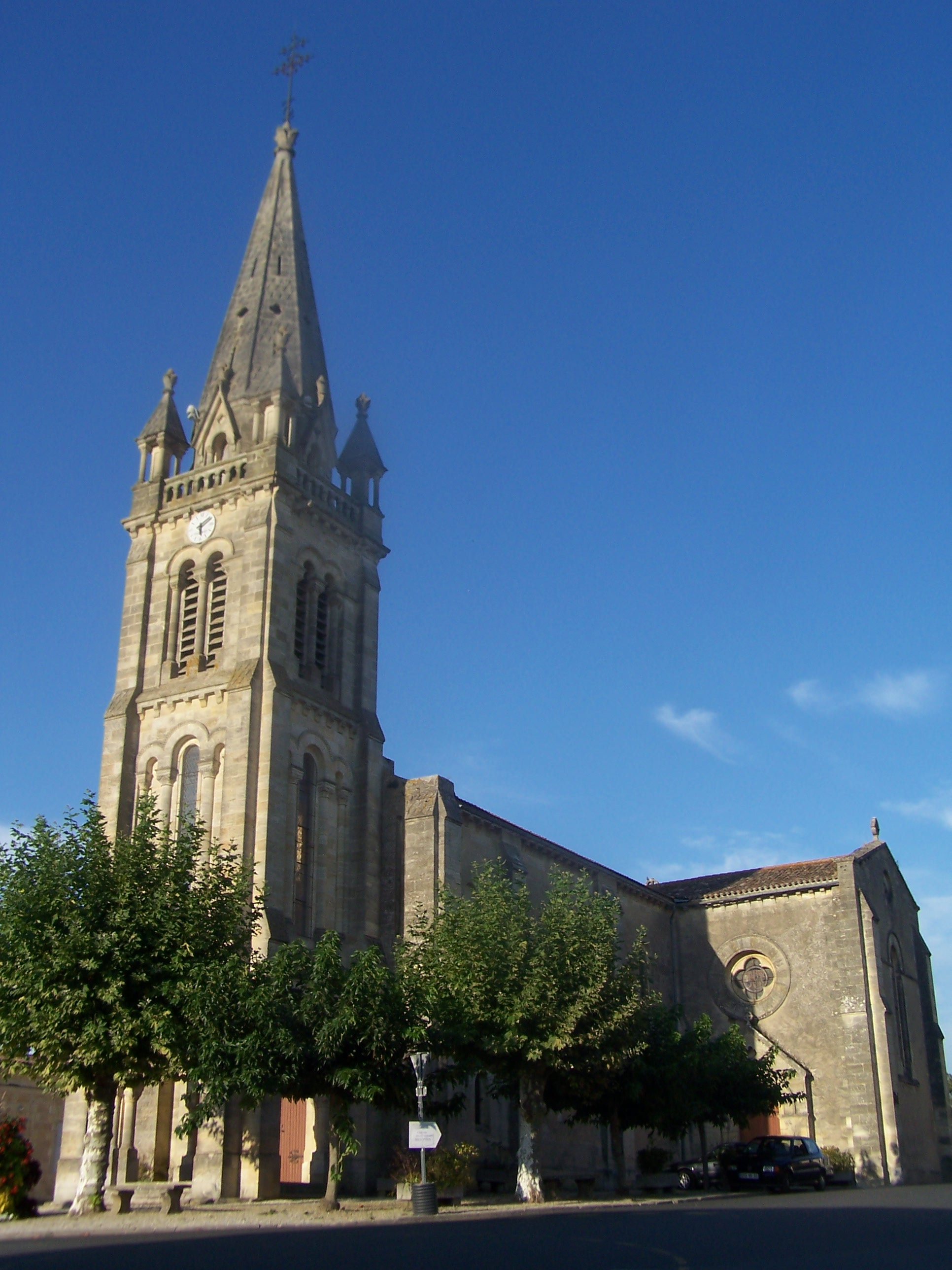 Saint Quitterie church of Martillac (Gironde, France)